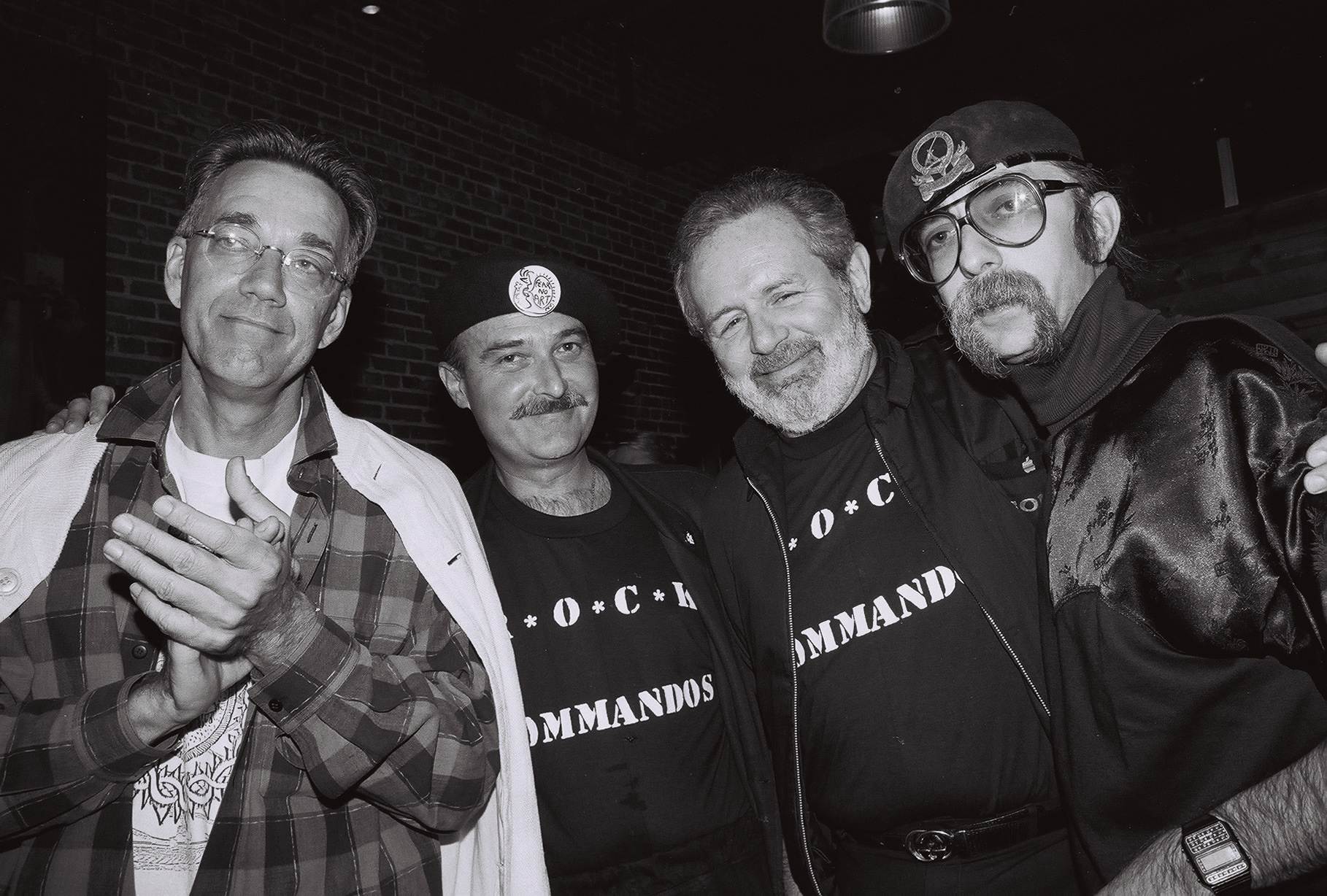 Photograph taken at the Lingerie Club in Los Angeles in 1985, during the shooting of ROCK Commandos, a documentary. From left: Ray Manzarek, Mr. Bonzai, Chris Stone, Jeff Skunk Baxter. Previously published in my book, Audio recording for profit: the sound of money.